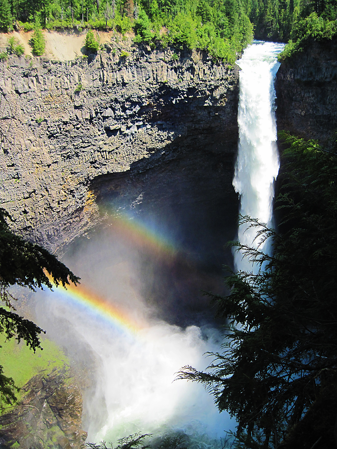 Helmcken Falls